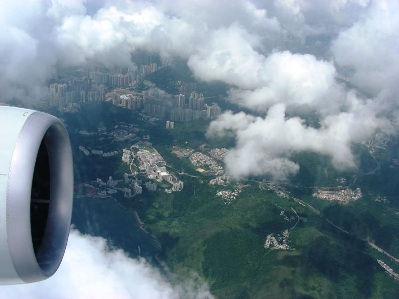 Hong Kong International Airport is the principal airport in Hong Kong. It is colloquially known as Chek Lap Kok Airport, due to the fact that it was built on the island of Chek Lap Kok by land reclamation. It opened for commercial operations in 1998, and is an important regional trans-shipment centre, passenger hub and gateway for destinations in China, East Asia and Southeast Asia. Despite its relatively short history, the airport has won several notable international "Best Airport" awards, although it lost out to Singapore Changi Airport in the Skytrax "Best airport" award in 2006, having won it from 2001-2005. It is currently given a rating of five stars by Skytrax's airport grading exercise along with two other airports. The airport operates around-the-clock and is capable of handling 45 million passengers and three million tonnes of cargo a year. It is the primary hub for Cathay Pacific and Dragonair, along with several other smaller airlines, including Hong Kong Express Airways, Hong Kong Airlines, Oasis Hong Kong Airlines and Air Hong Kong.